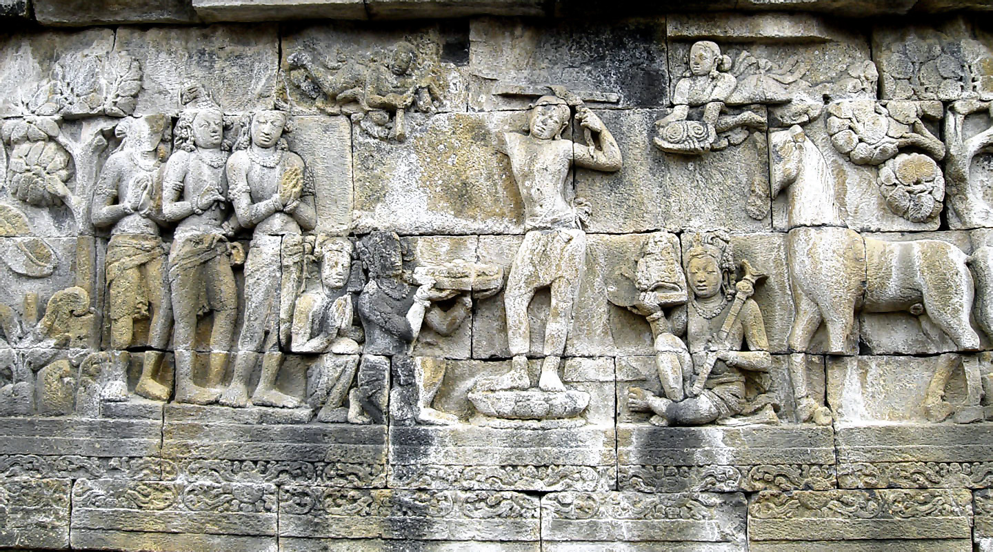 Prince Siddharta Gautama shaves the hair off his head as the sign to decline his status as ksatriya (warrior class) and becomes an ascetic hermit, his servants hold his sword, crown, and princely jewelry while his horse Kanthaka stands on right. Bas-relief panel at Borobudur, Java, Indonesia.